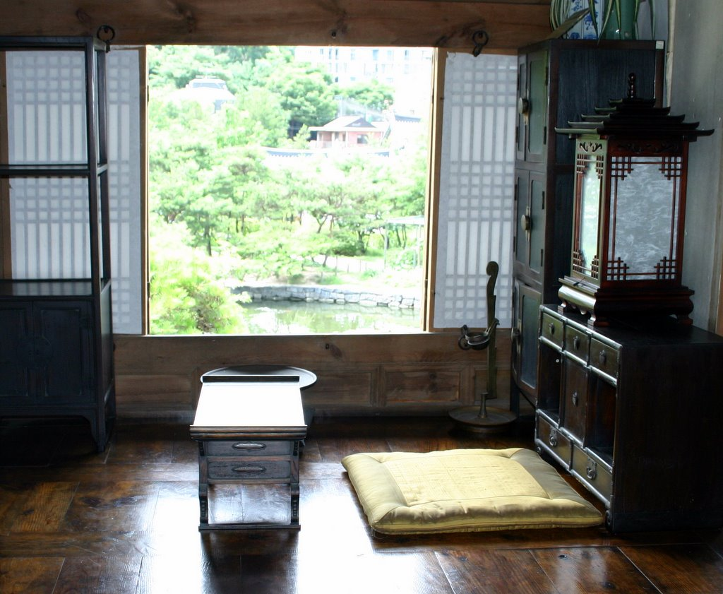 Seoul-A traditional room at a Hanok near Chungmuro Station, Seoul, South Korea.